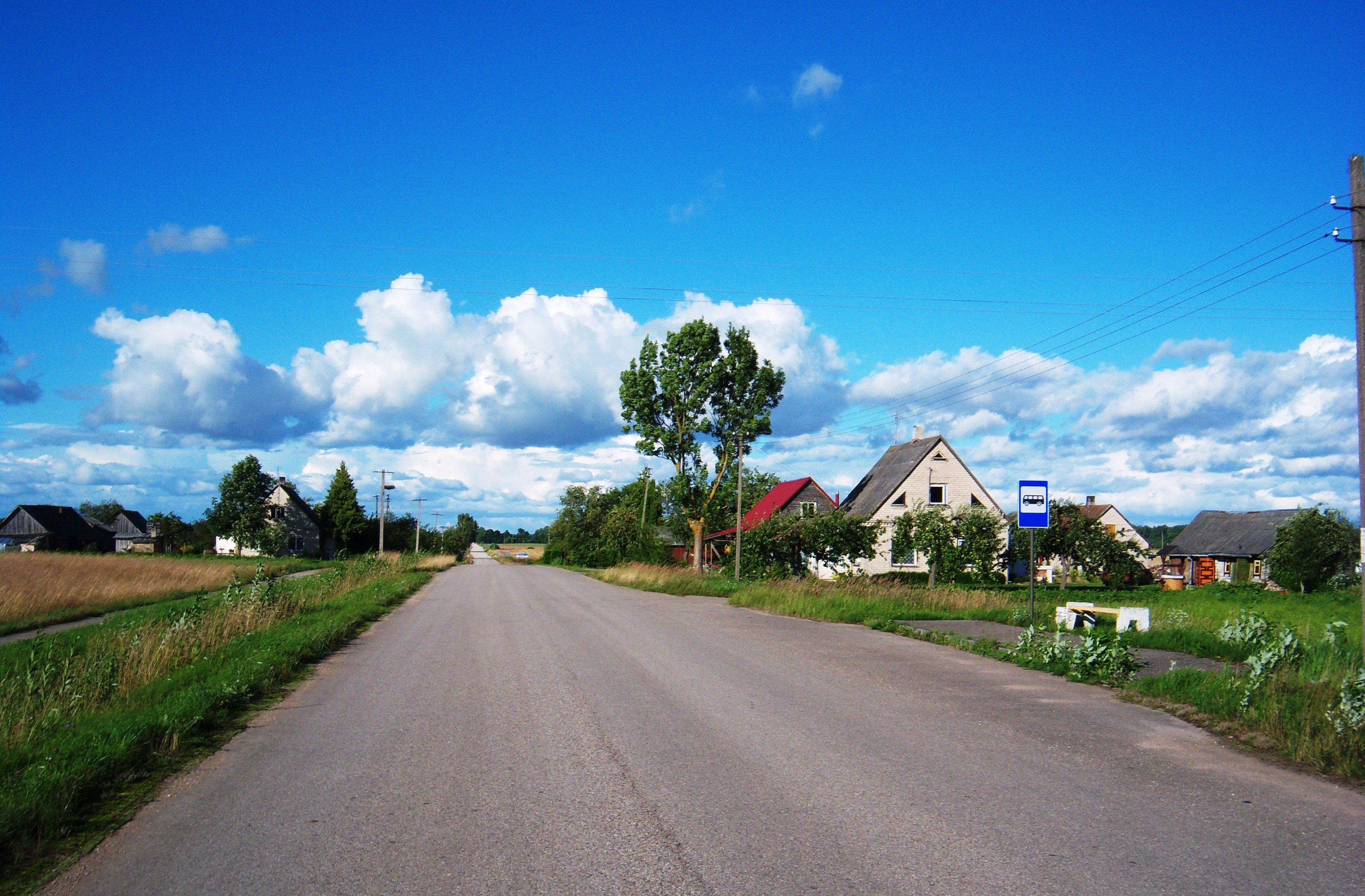 Laukagaliai, Anykščiai District, Lithuania